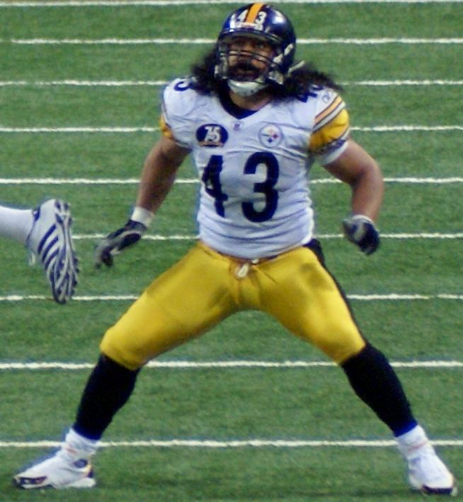 Pittsburgh Steelers safety Troy Polamalu in action in the regular season game against the St. Louis Rams on December 20, 2007.